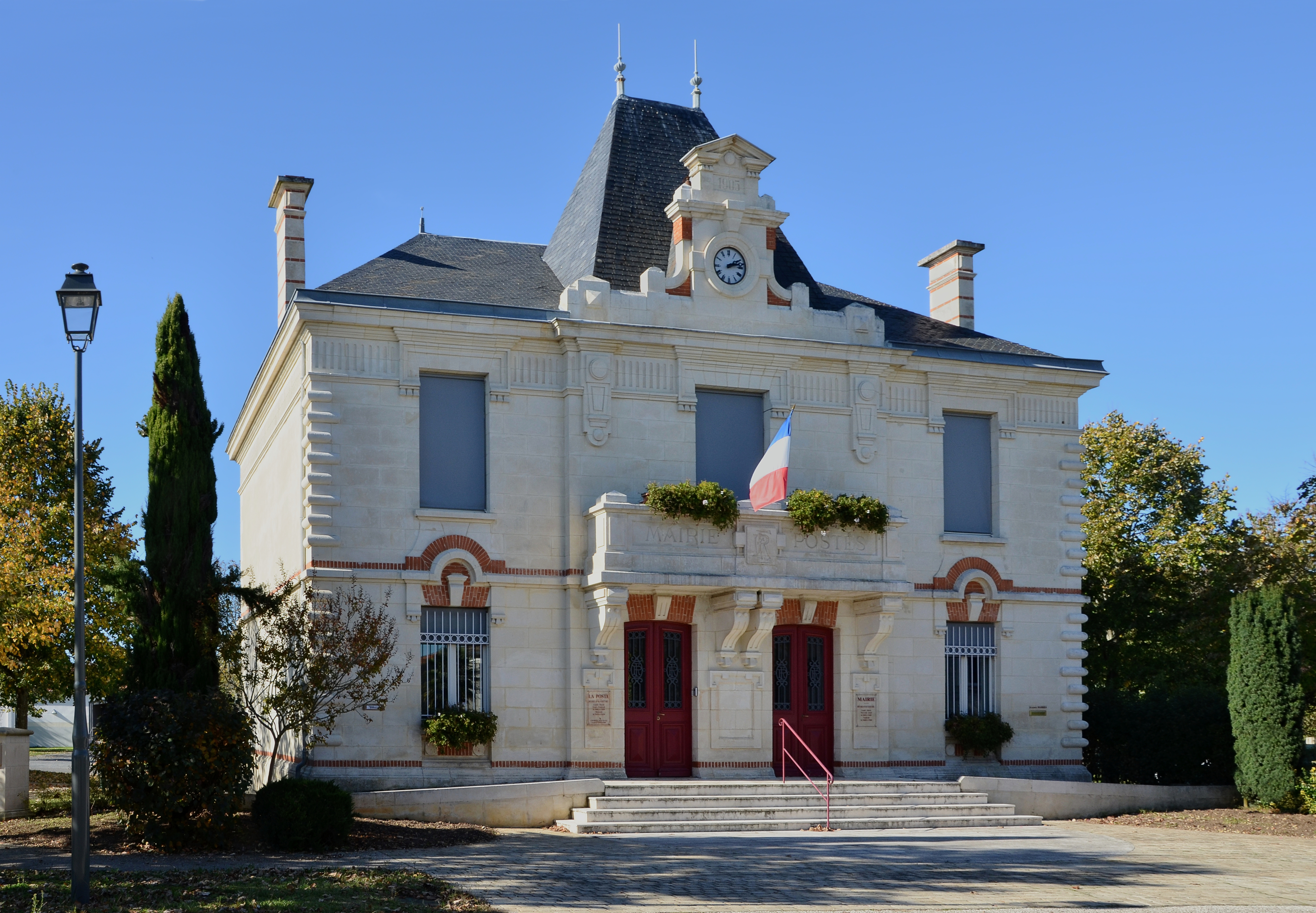 Town hall of Rétaud (1905), Charente-Maritime, France.